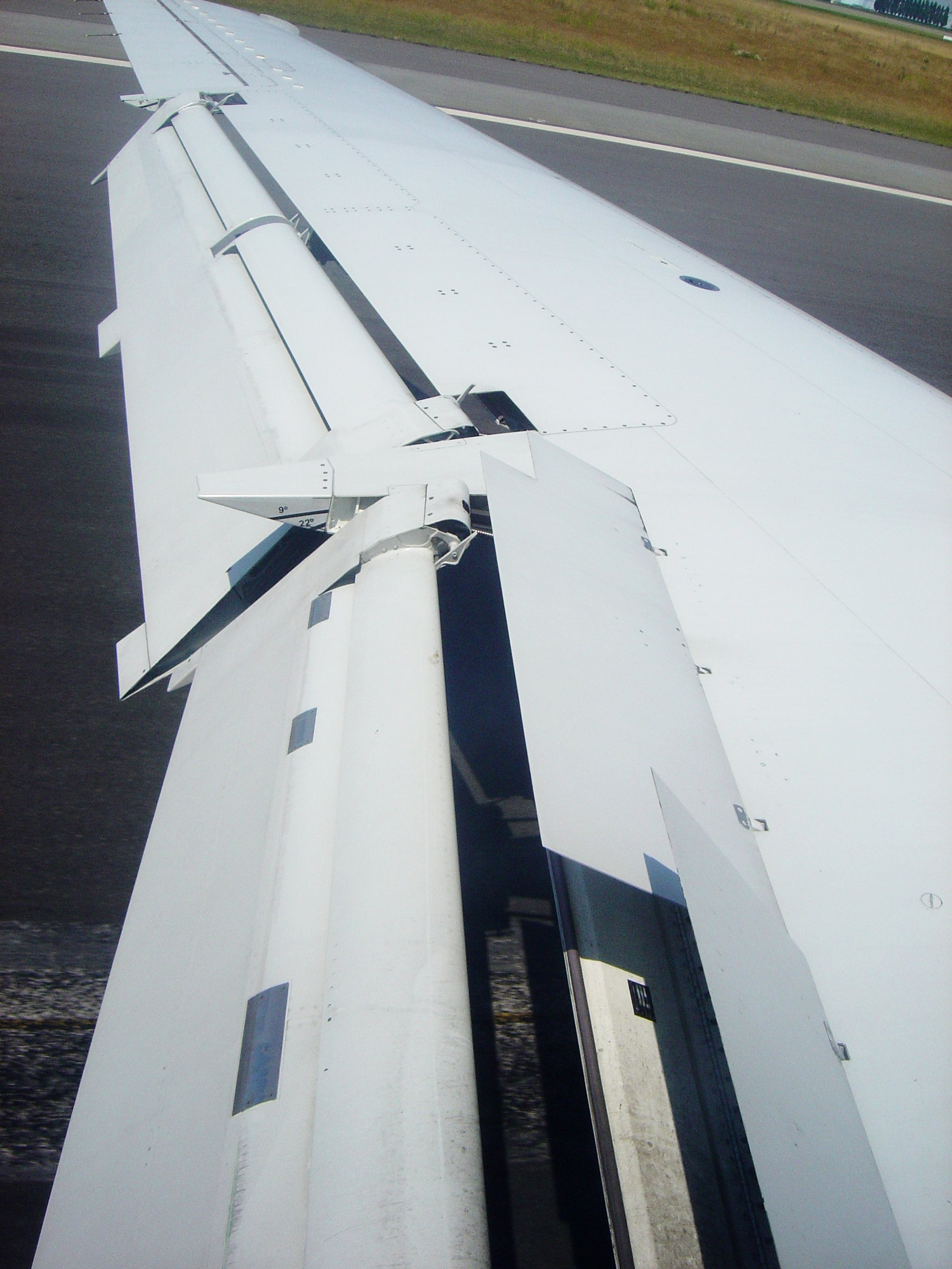 Aircraft wing